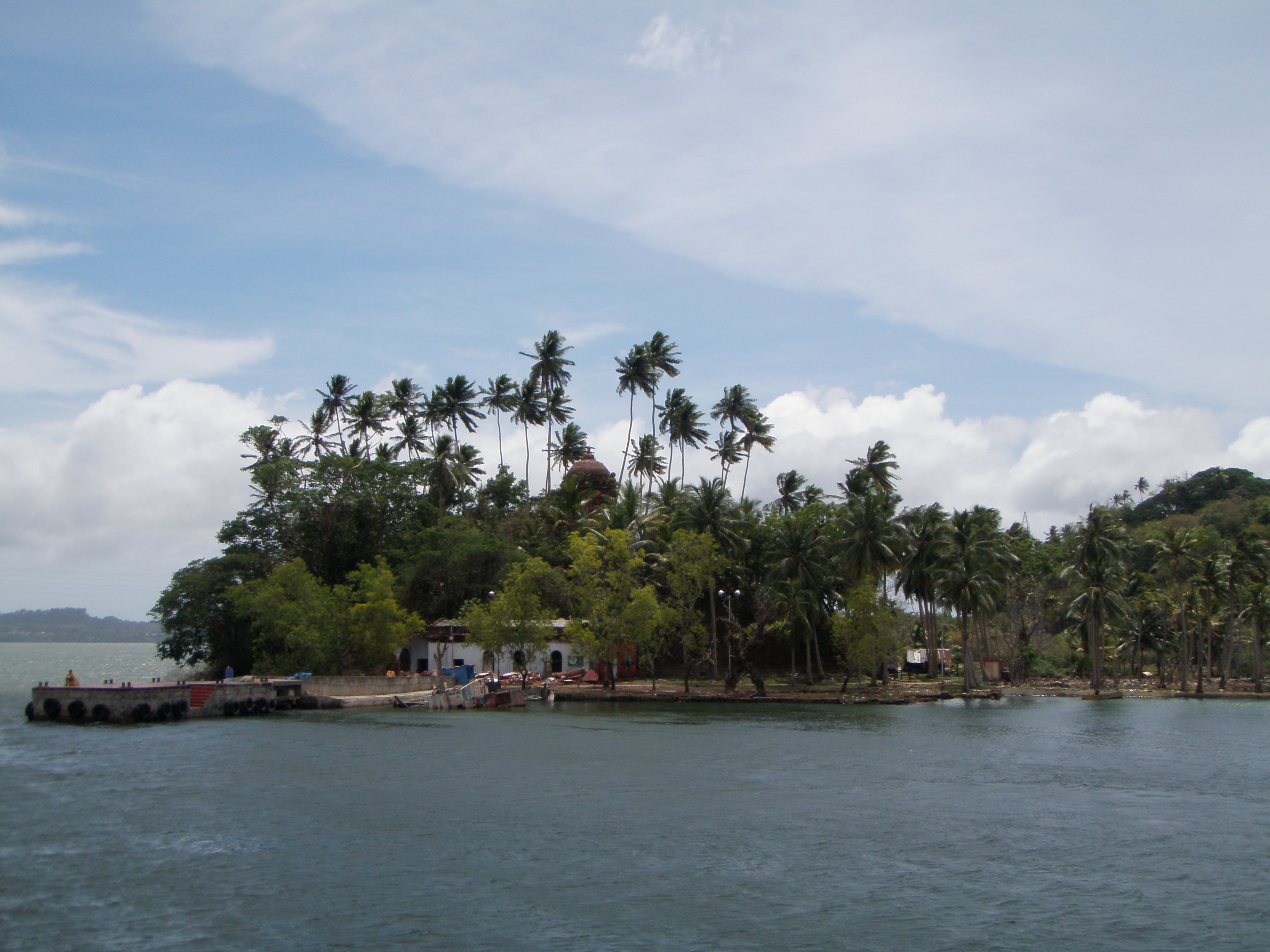 Viper Island is near to Port Blair, where the old Jail was set up by British raj and used for political prisoners. Now it is a popular tourist spot.